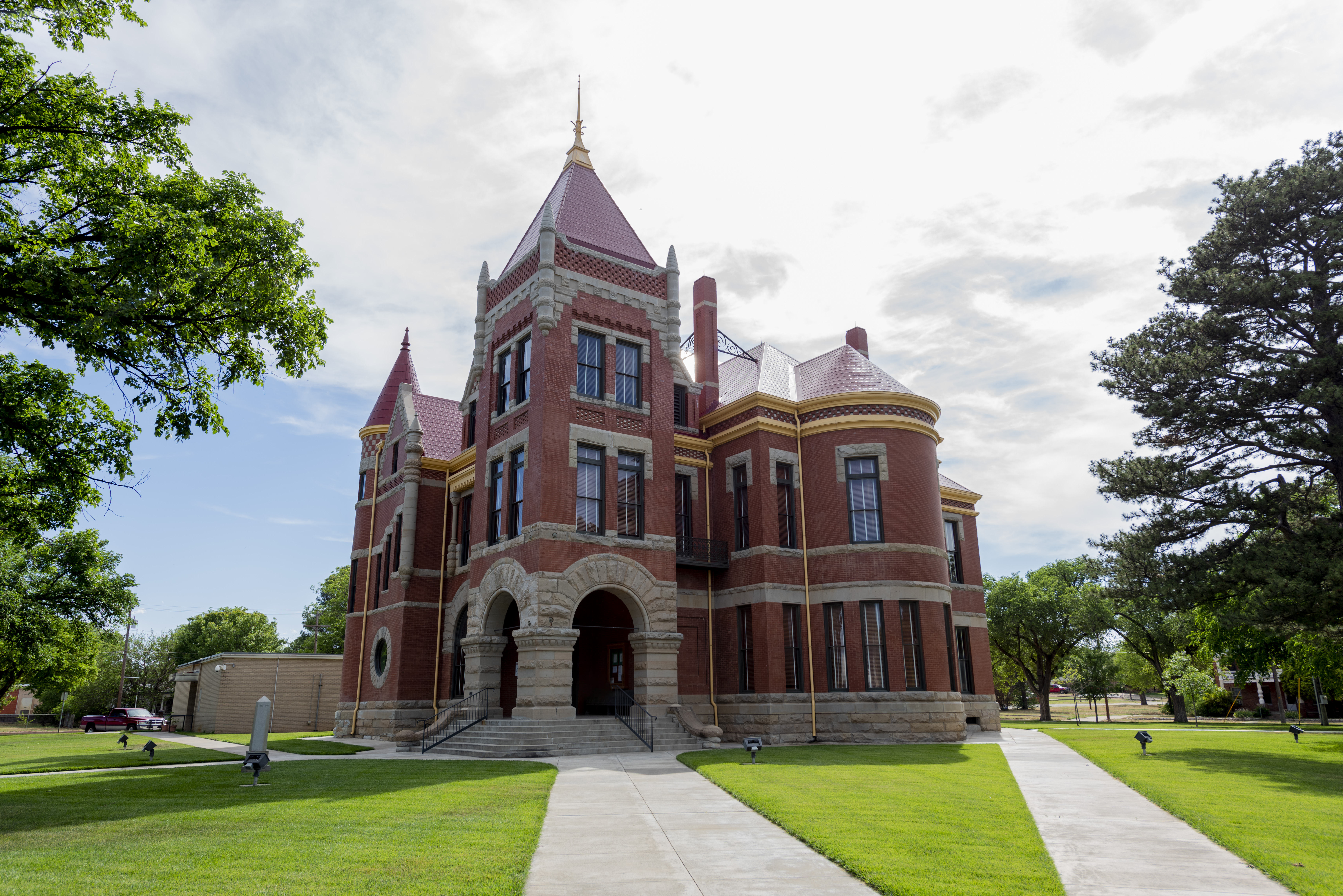 Image of the Donley County, Texas courthouse in Clarendon, Texas. Taken in May 2020.